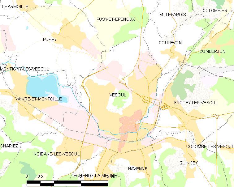 Map of French municipality